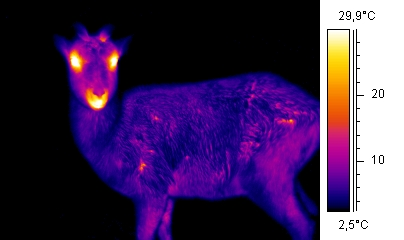 thermographic image of a deer